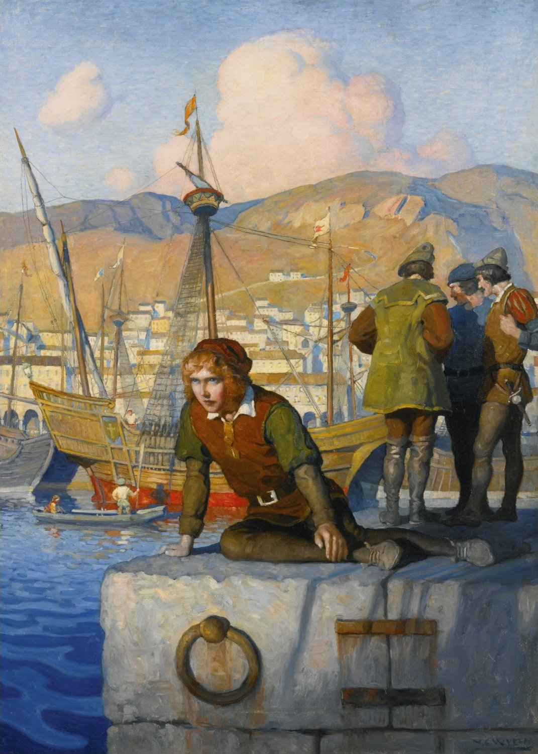 The Boy Columbus on the Wharf at Genoa (The Vision of Columbus) by N.C. Wyeth, 1917, oil on canvas, 40 x 29 in